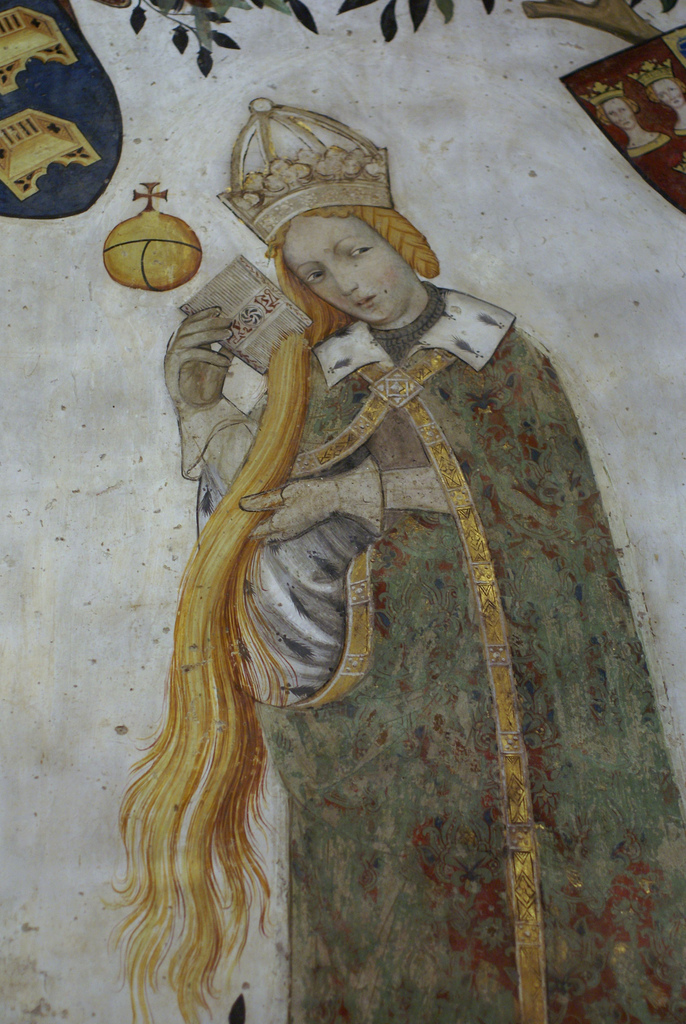 Beatrice of Sicily as Antiope